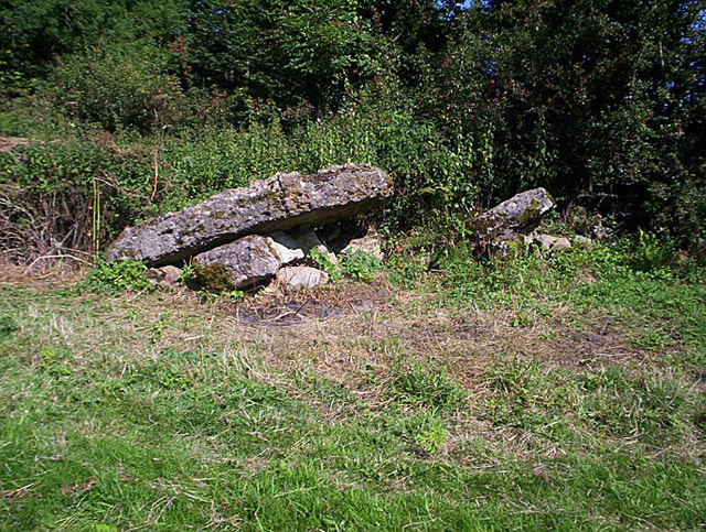 Coity Burial Chamber Rather nice Burial Chamber just off the public footpath.